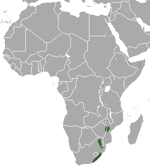 Dark-footed Mouse Shrew (Myosorex cafer) range